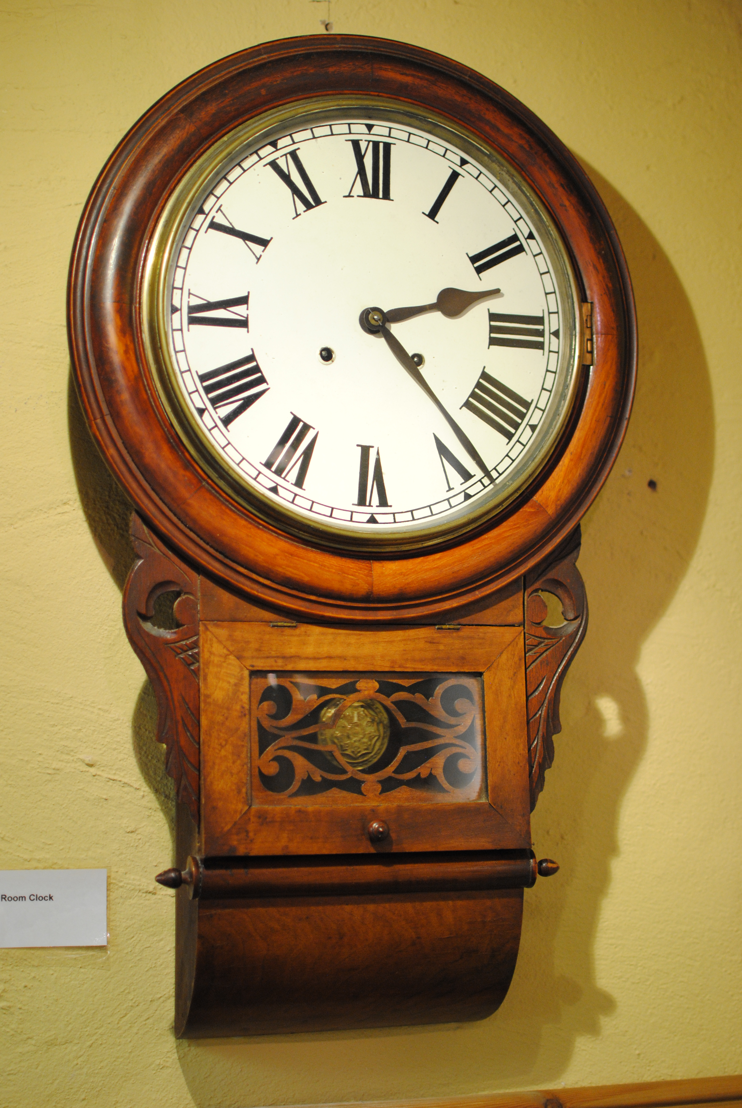 Kington railway station waiting room clock, in Kington Museum, Herefordshire, England